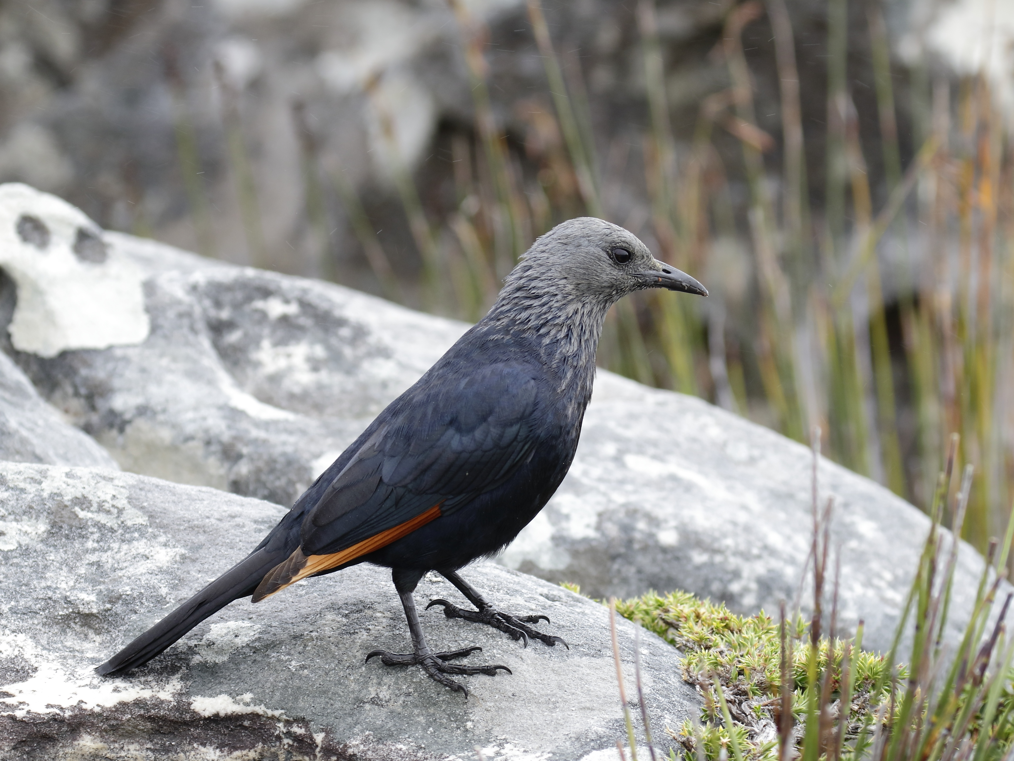 Red-winged Starling (female); Table Mountain, Capetown, South Africa